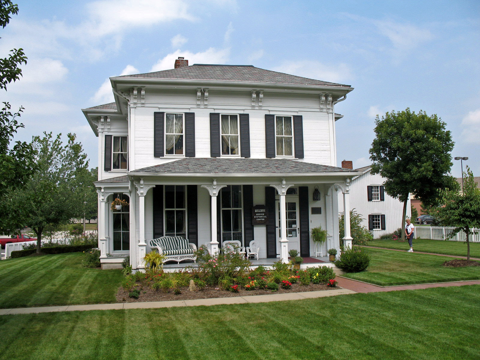 Registered Historic Places in Stark County, Ohio. Hoover Farm (built 1853), 1875 Easton St., North Canton, Ohio, USA. Boyhood home of vacuum cleaner entrepreneur William "Boss" Hoover. Photographed 2008-08-29 from the lawn to the south of the building.